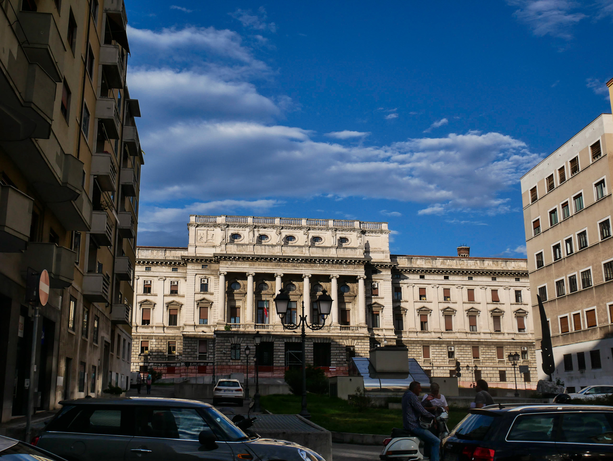 1 STREET TRIBUNALE GX80 3-7-2017